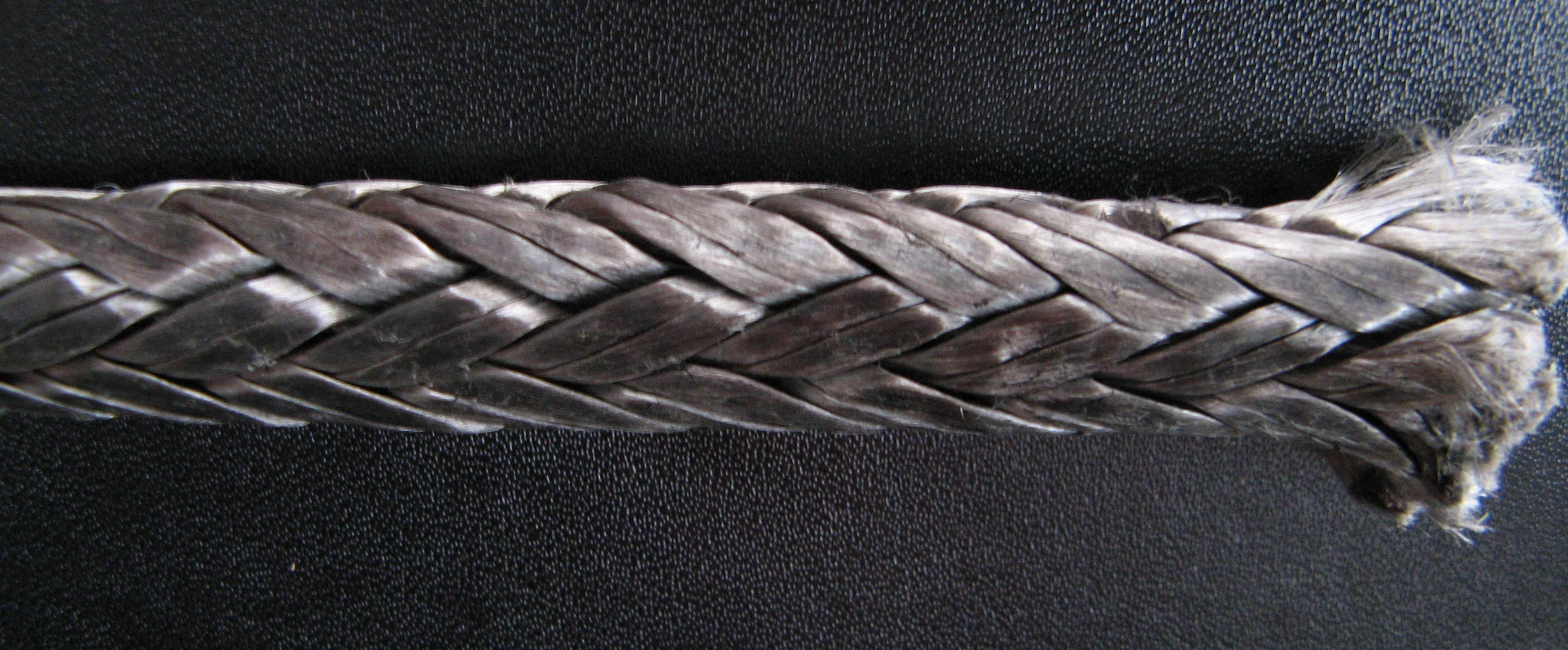 LIROS Dyneema SK78 hollowbraid line